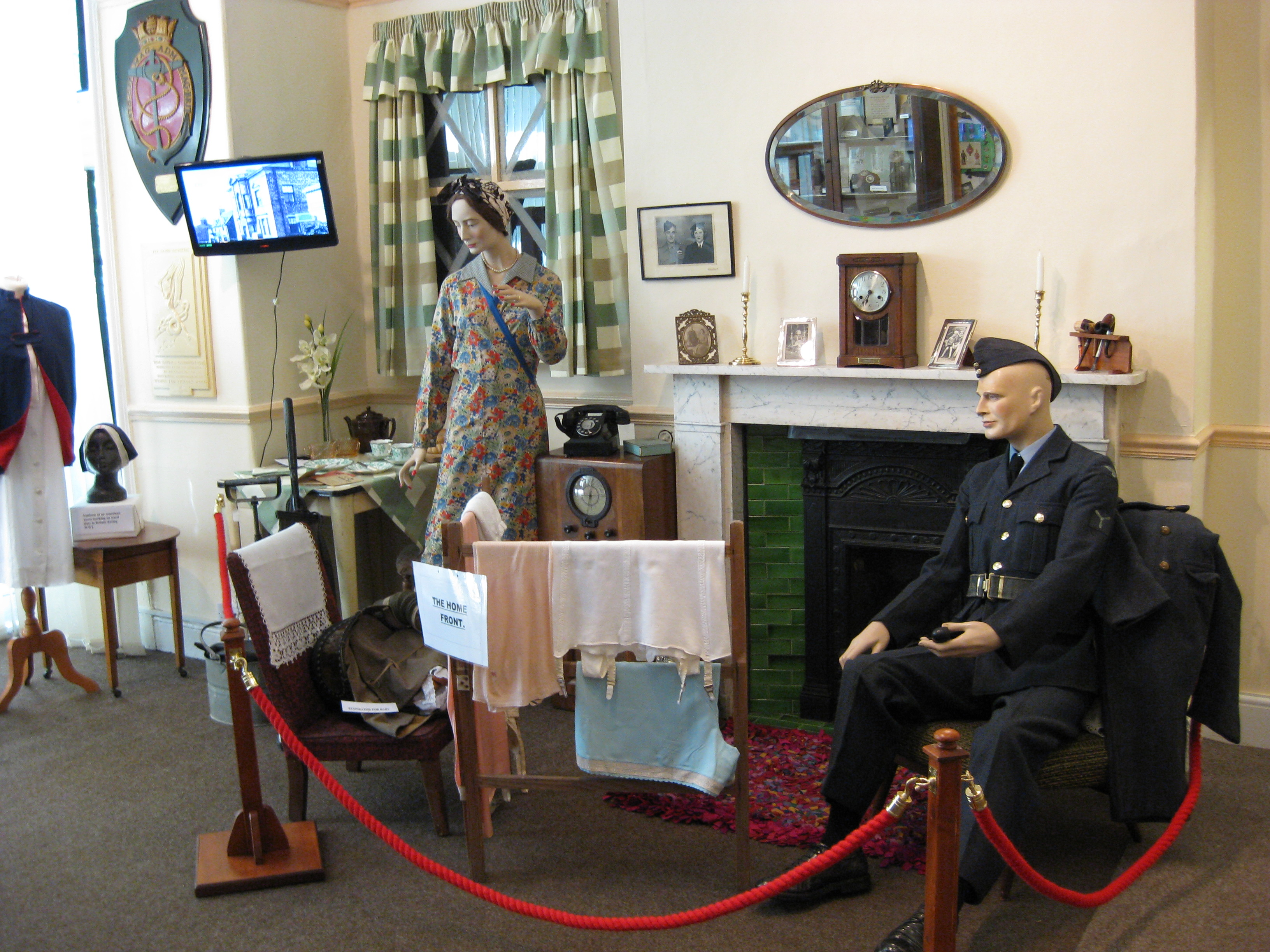 Exhibit in the Horsforth Museum, Leeds LS18. The Home Front. A domestic scene from World War II